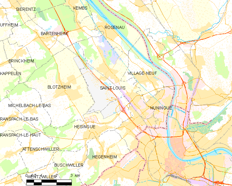 Map of French municipality